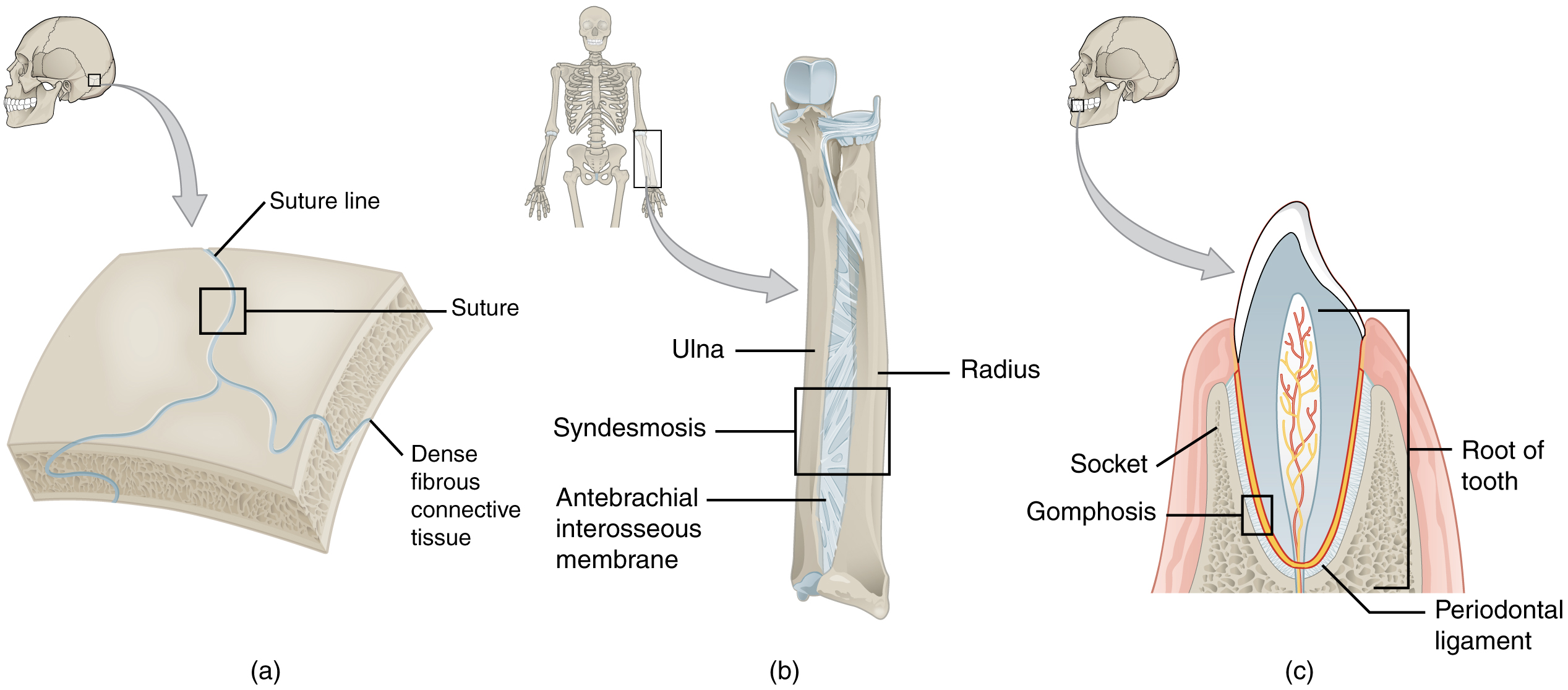 Anatomy & Physiology, Connexions Web site. Jun 19, 2013.